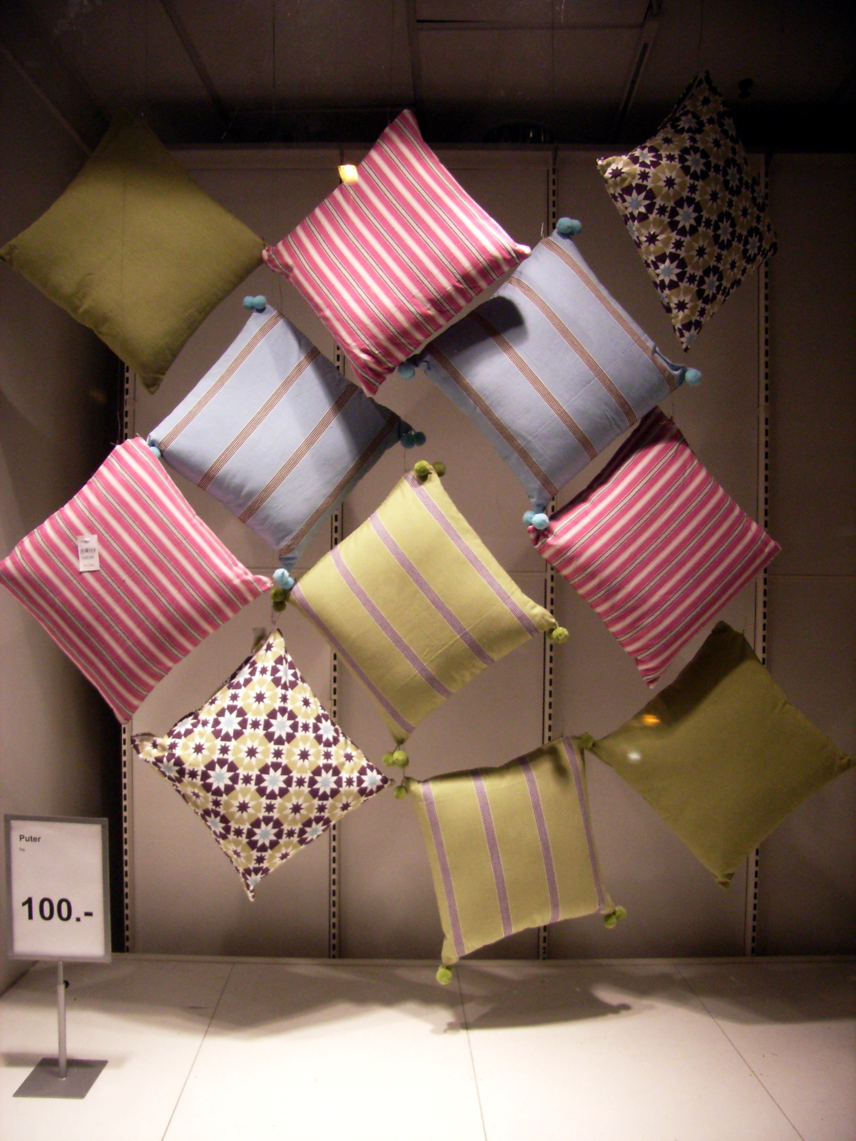 Shopping, Åhléns store in Norway.